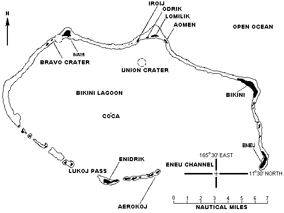 This is a map of the Bikini Atoll after the many nuclear tests done there.